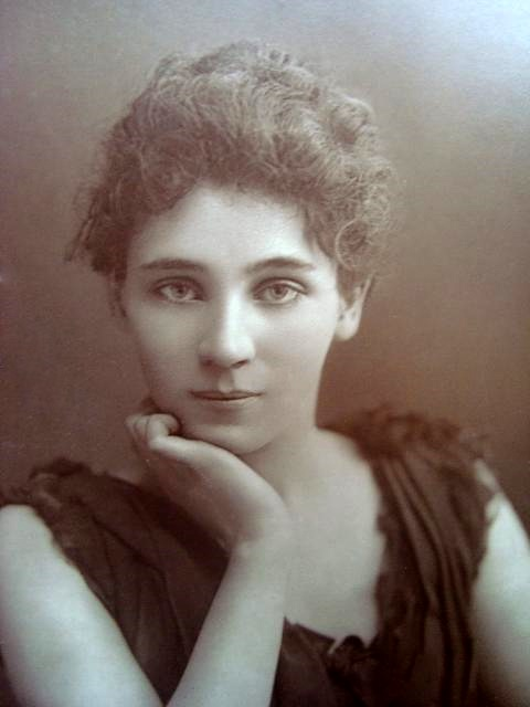 Albumen of Elizabeth Robins